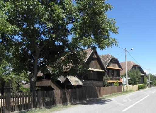 Letovanić